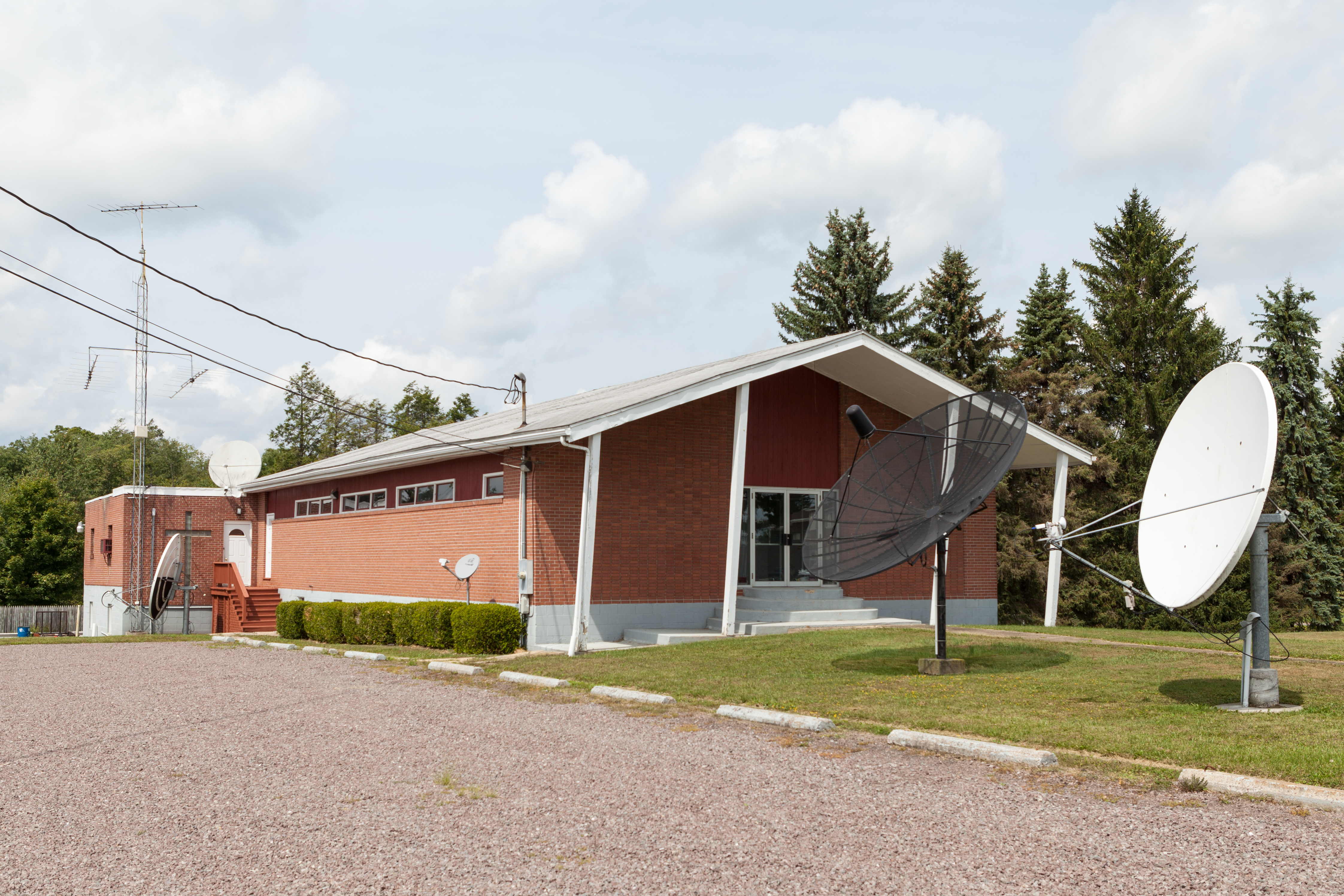 WAIJ-FM studio on Springs Road in Grantsville, Maryland.